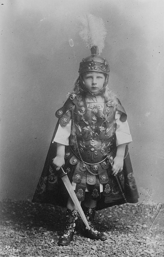 Prince Nicolae of Romania (1903-1978) as a child.